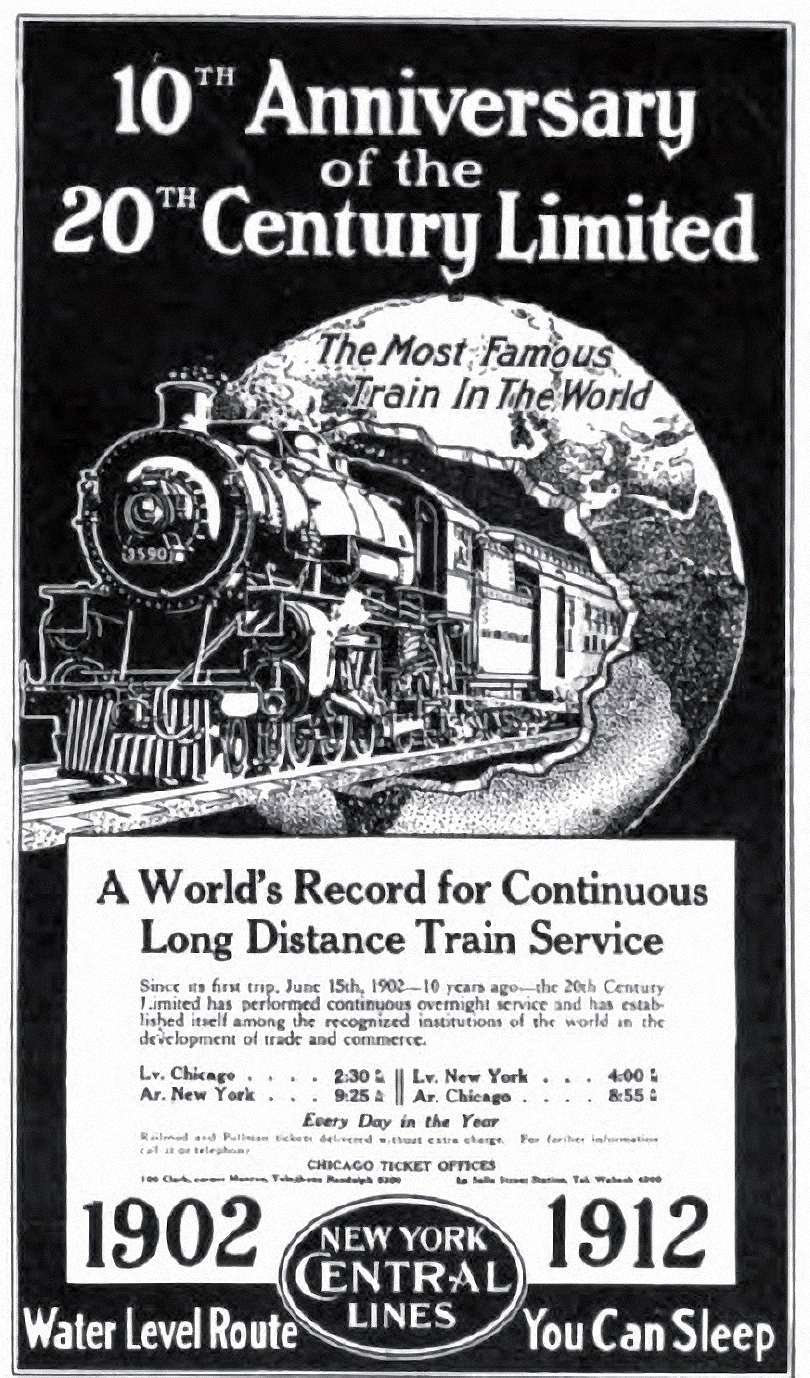 1912 advertisement for the New York Central New York - Chicago express train 20th Century Limited as "The Most Famous Train In The World".